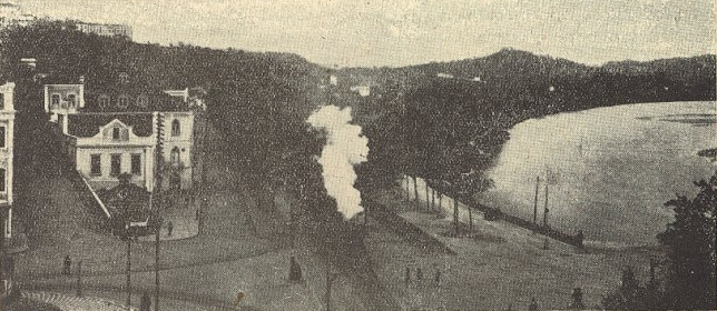 Train at the Emídio Navarro Avenue, in the city of Coimbra, in Portugal. This image was published on the Gazeta dos Caminhos de Ferro magazine no. 1333, of the 1st July 1943, and scanned by the Hemeroteca Municipal de Lisboa.